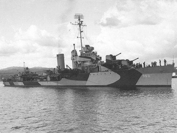 The U.S. Navy destroyer USS Dale (DD-353) off the Puget Sound Navy Yard, Washington (USA), on 5 October 1944. Her camouflage scheme is Measure 31, Design 6D.